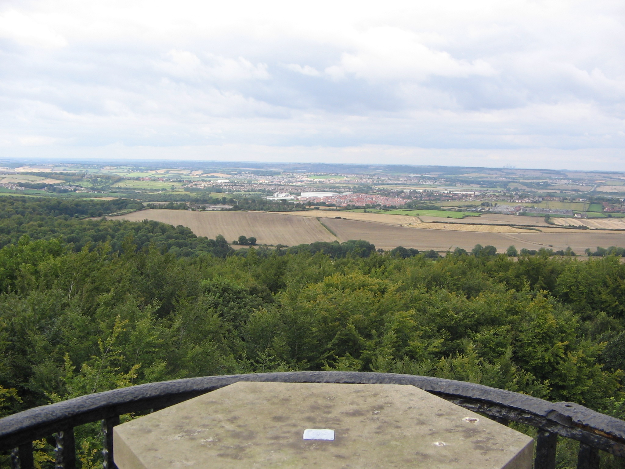 Original description from en.wikipedia: "View north from the top of Hoober Stand. Taken by me using my digital photograph on Monday August 27th 2007."